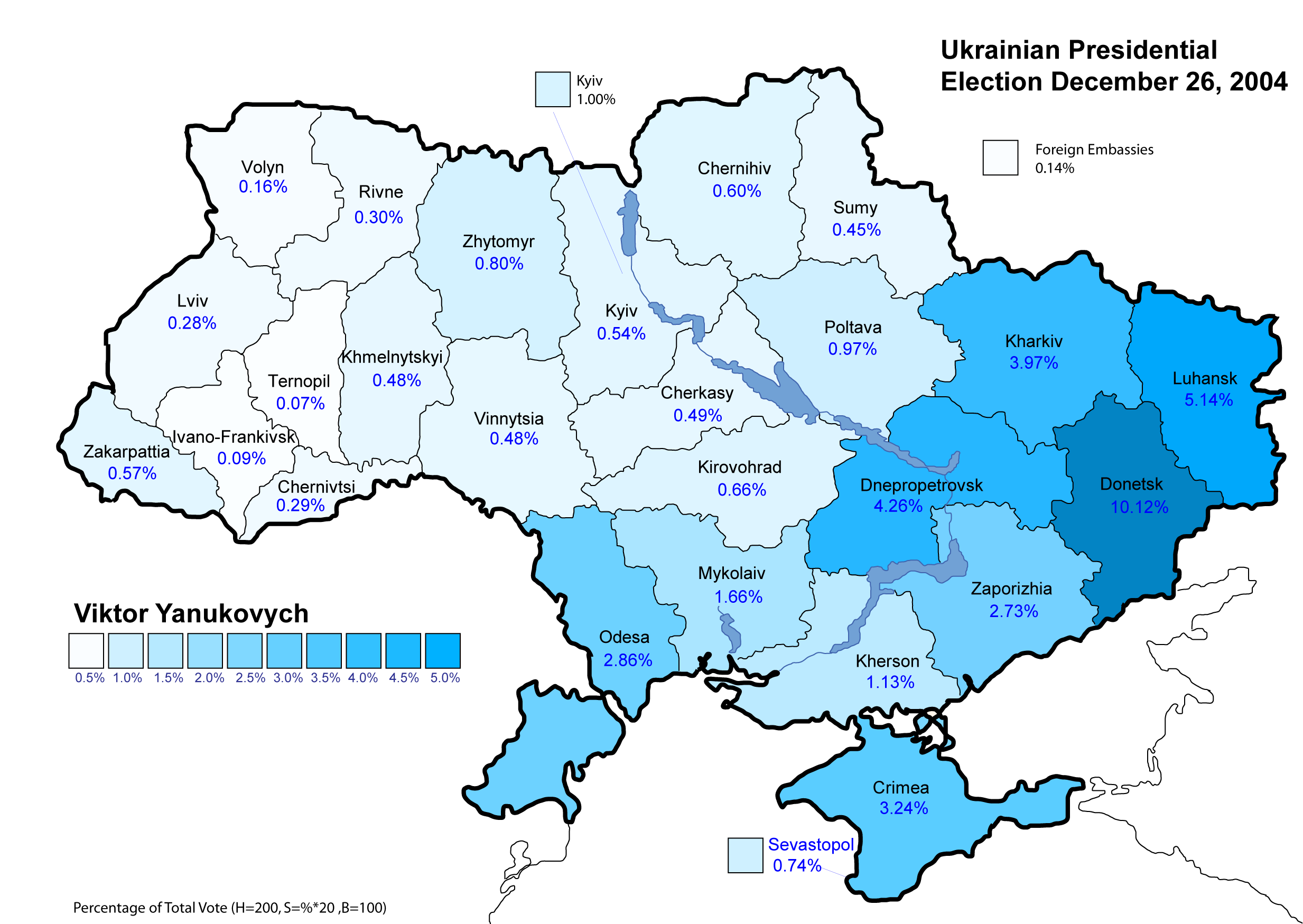 Ukrainian Presidential Election October 2004 - Viktor Yanukovych (Final Round)